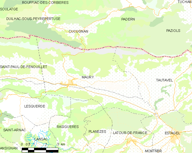 Map of French municipality